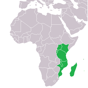 Map highlighting Southeast Africa